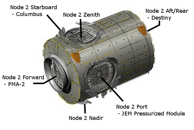 Harmony (Node 2) Attachments: Future Port Utilization